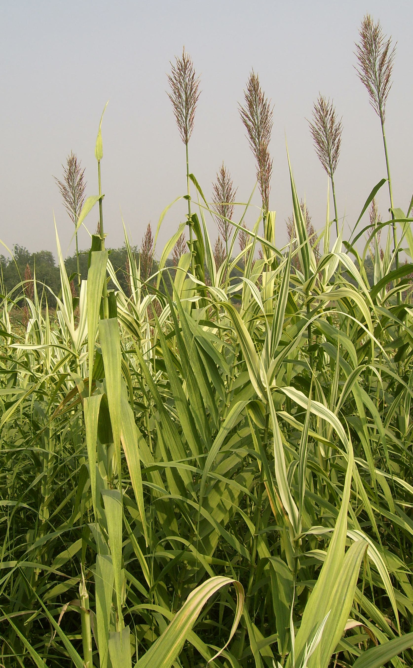 Arundo donax